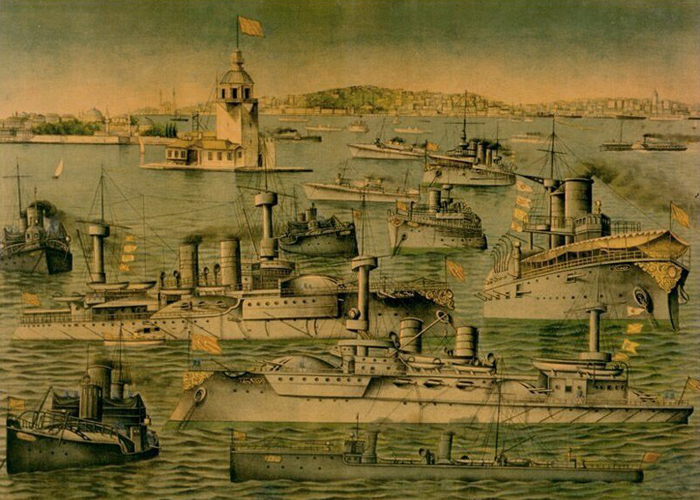 20. Yüzyıl Başlarında Osmanlı Donanması, Lithograph, 54 x 73 cm. (Yadigâr-ı Millet, Barbaros Hayrettin, Muavenet-i Milliye, Mesudiye, Turgut Reis, Gayret-i Vataniye, Numune-i Hamiyet ve Asar-ı Tevfik Savaş Gemileri)